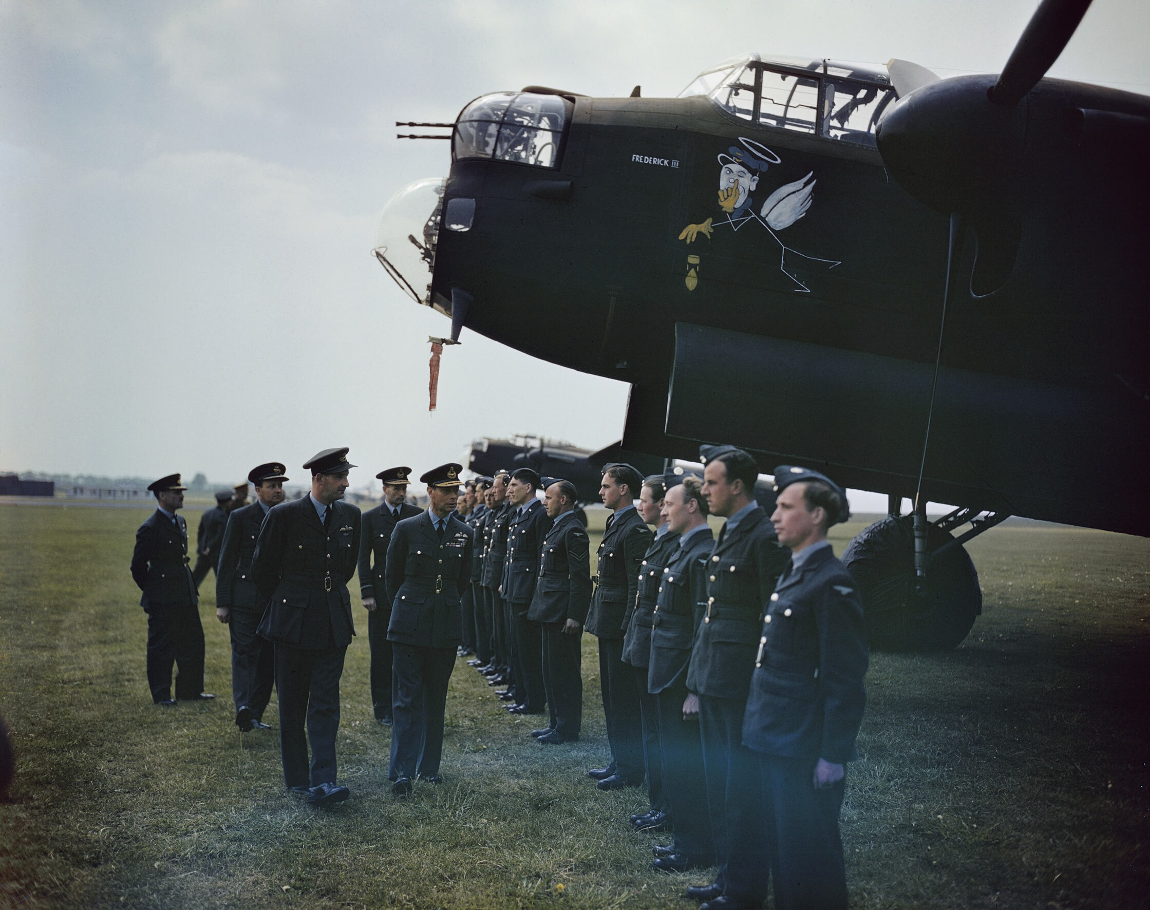 The Visit of Hm King George Vi To No 617 Squadron (the Dambusters), Royal Air Force, Scampton, Lincolnshire, 27 May 1943 The King inspects ground crewmen lined up beneath the nose of Avro Lancaster B Mark I, ED989, DX-F, 'Frederick III', which bears a motif derived from a caricature of Wing Commander Campbell Hopcroft, the Commanding Officer of No 57 Squadron which shared Scampton with No 617 Squadron at this time.